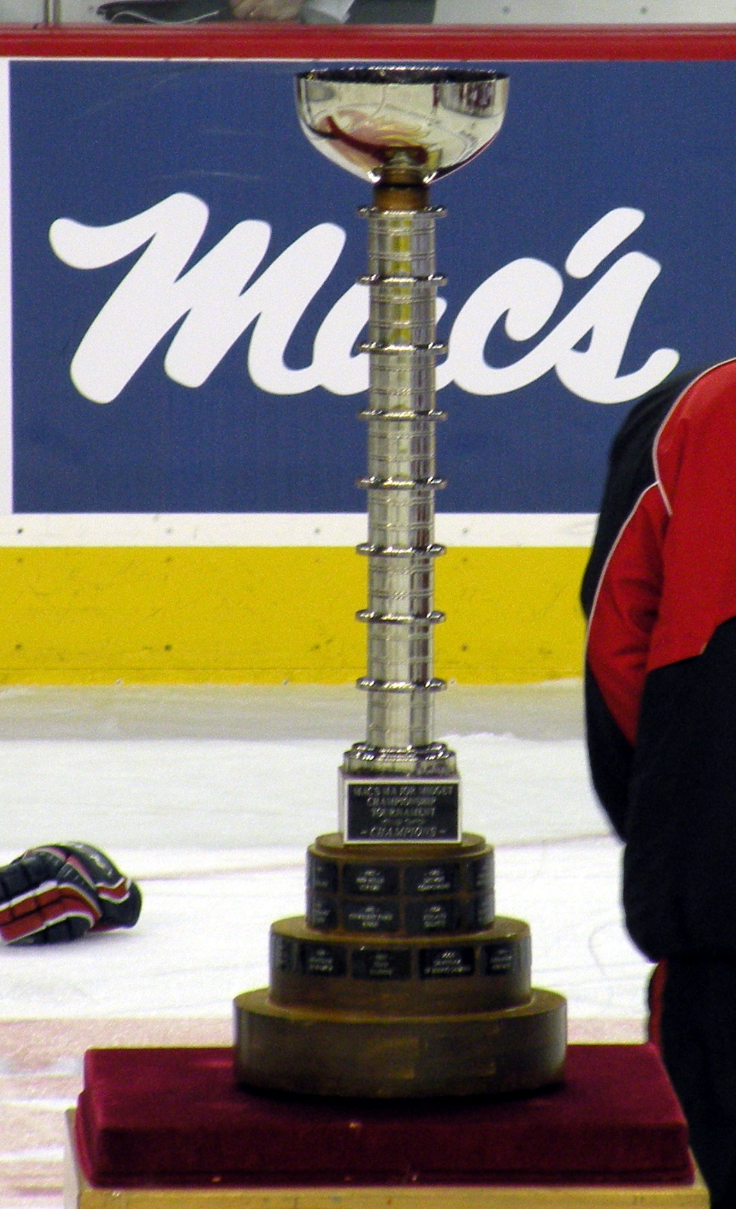 The Mac's Cup, championship trophy of the Mac's AAA midget hockey tournament, held annually in Calgary, Alberta, Canada, every December.